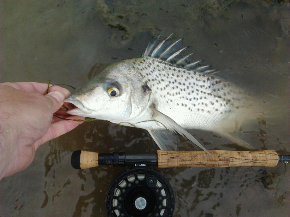 Spotted Grunter at Breede River mouth, Western Cape